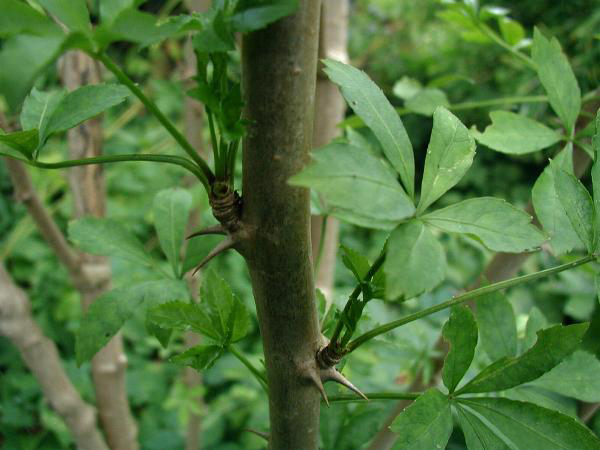 Species Eleutherococcus sieboldianus Familia Araliaceae Thorns and leaves. Photo: Sten Porse